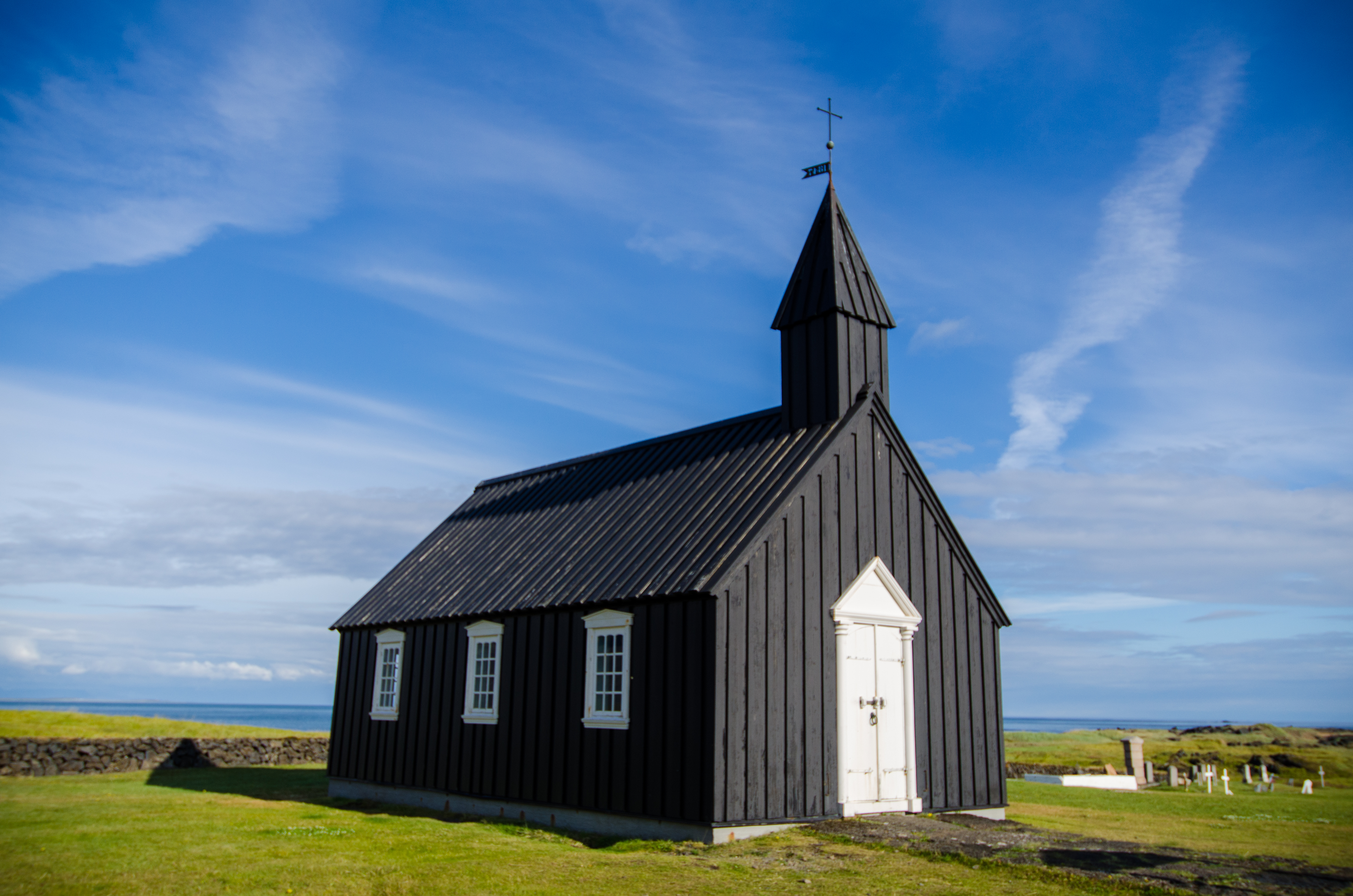 Seen in the film Metalhead.